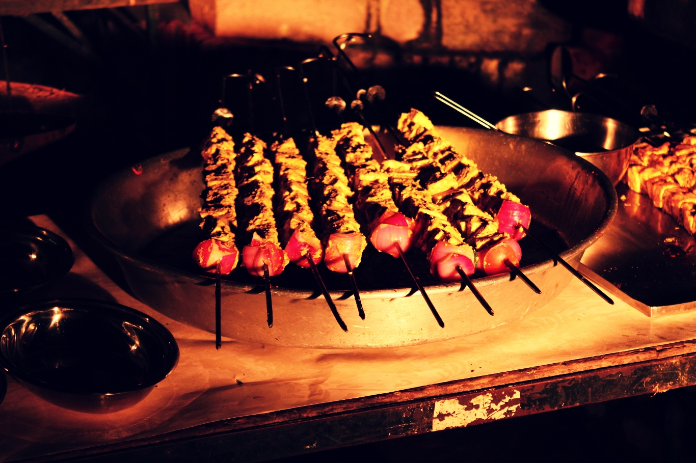 A dramatic picture of a classic Indian snack served at almost every occasion. - 'Paneer Tikka'